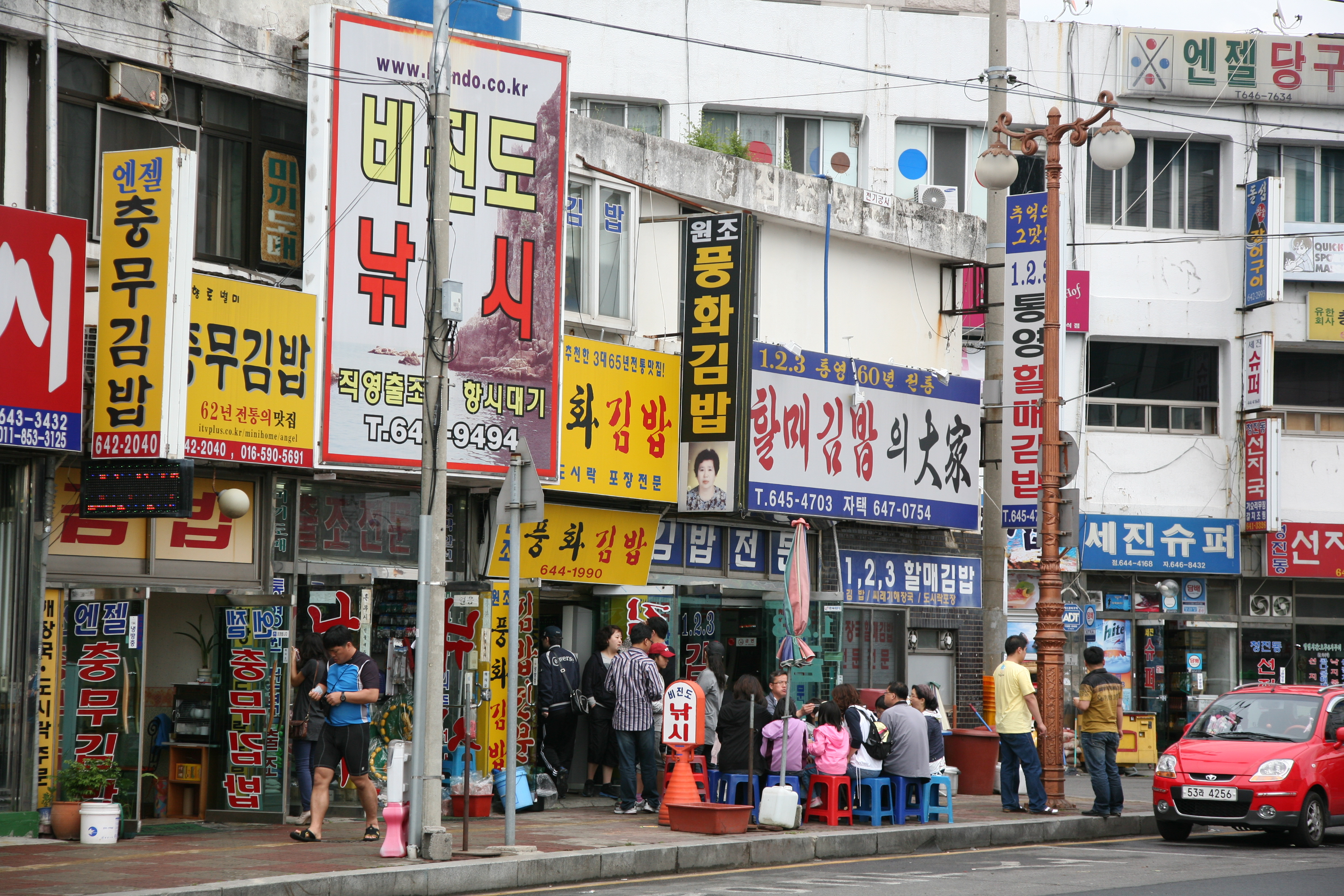 View of Tongyeong, South Gyeongsang province, South Korea